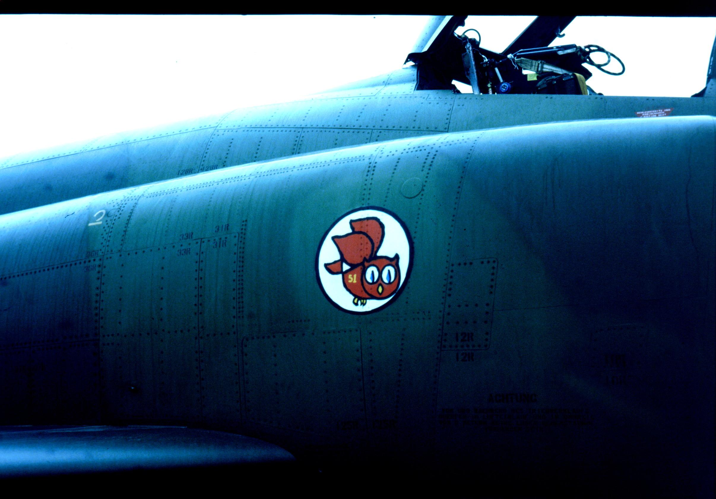 "Owl" badge of the first Aufklärungsgeschwader 51 "Immelmann" (AG51"I") on the air intake of a Luftwaffe RF-4E Phantom II. The reconaissance wing was based at Bremgarten Air Base in the extreme south-west of Germany. It operated the Phantom from early 1971 until its disbandment at the end of 1992.